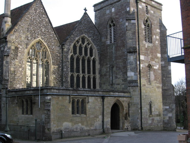 West end of St Martin's parish church, Salisbury, Wiltshire, seen from St Martin's Church Street